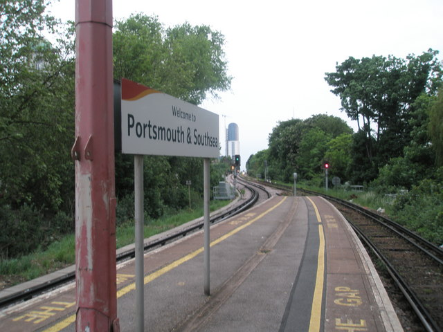 View from western end of upper platforms at Portsmouth and Southsea Station